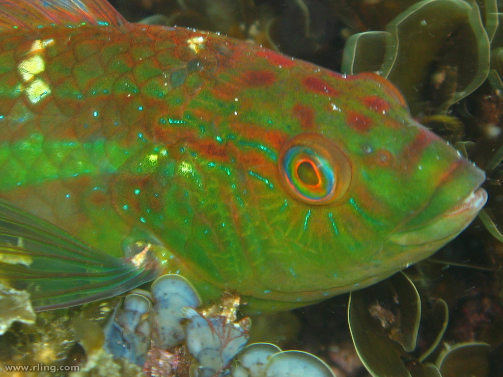 A male Senator Wrasse (Pictilabrus laticlavius). Fairy Bower, Manly, NSW